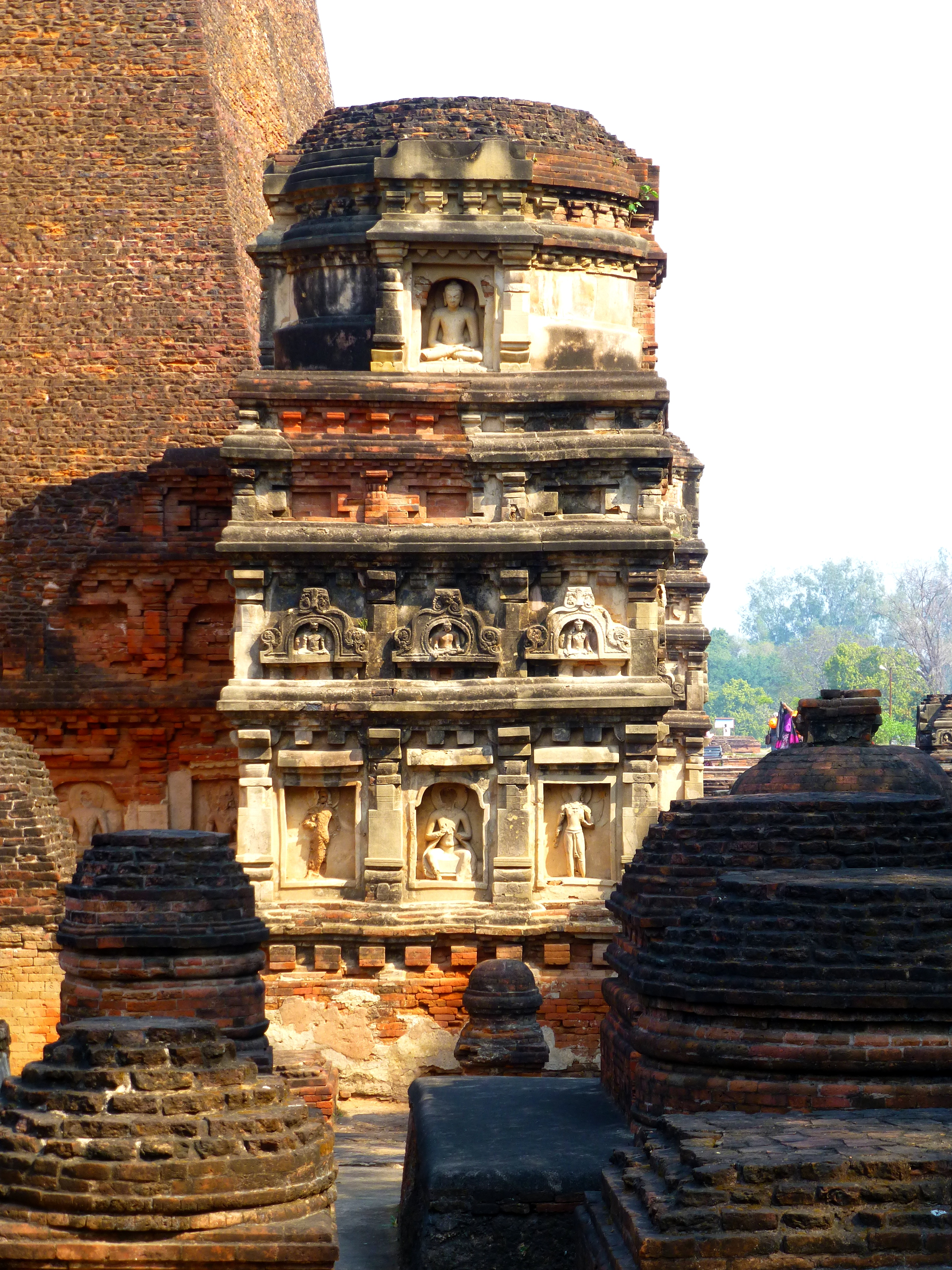 012 Eastern Tower at Nalanda Photograph from the ruins of Nalanda in Bihar taken by Anandajoti.